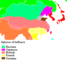 Created from :Image:BlankMap-World.png.